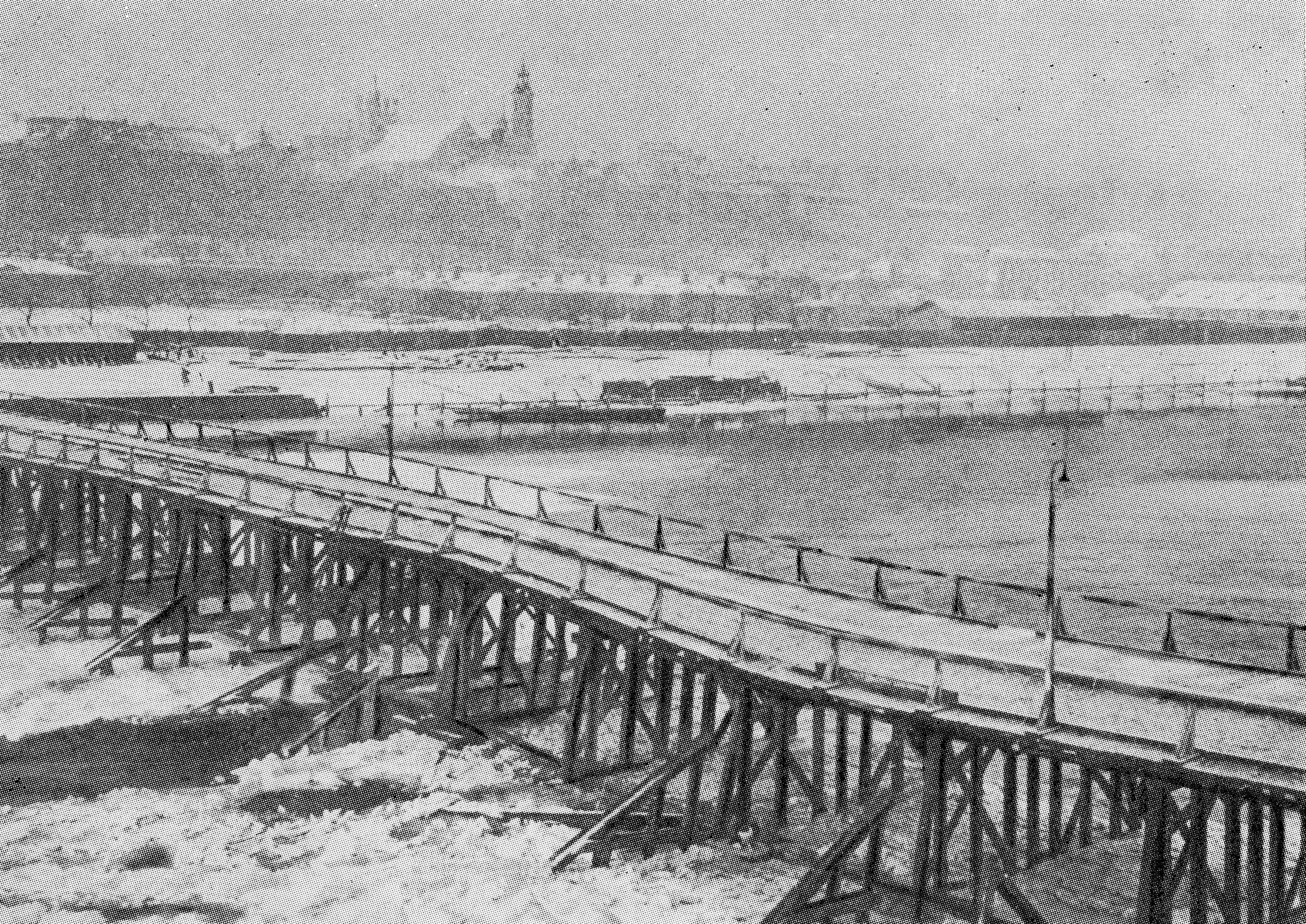 Beseler Bridge in Warsaw